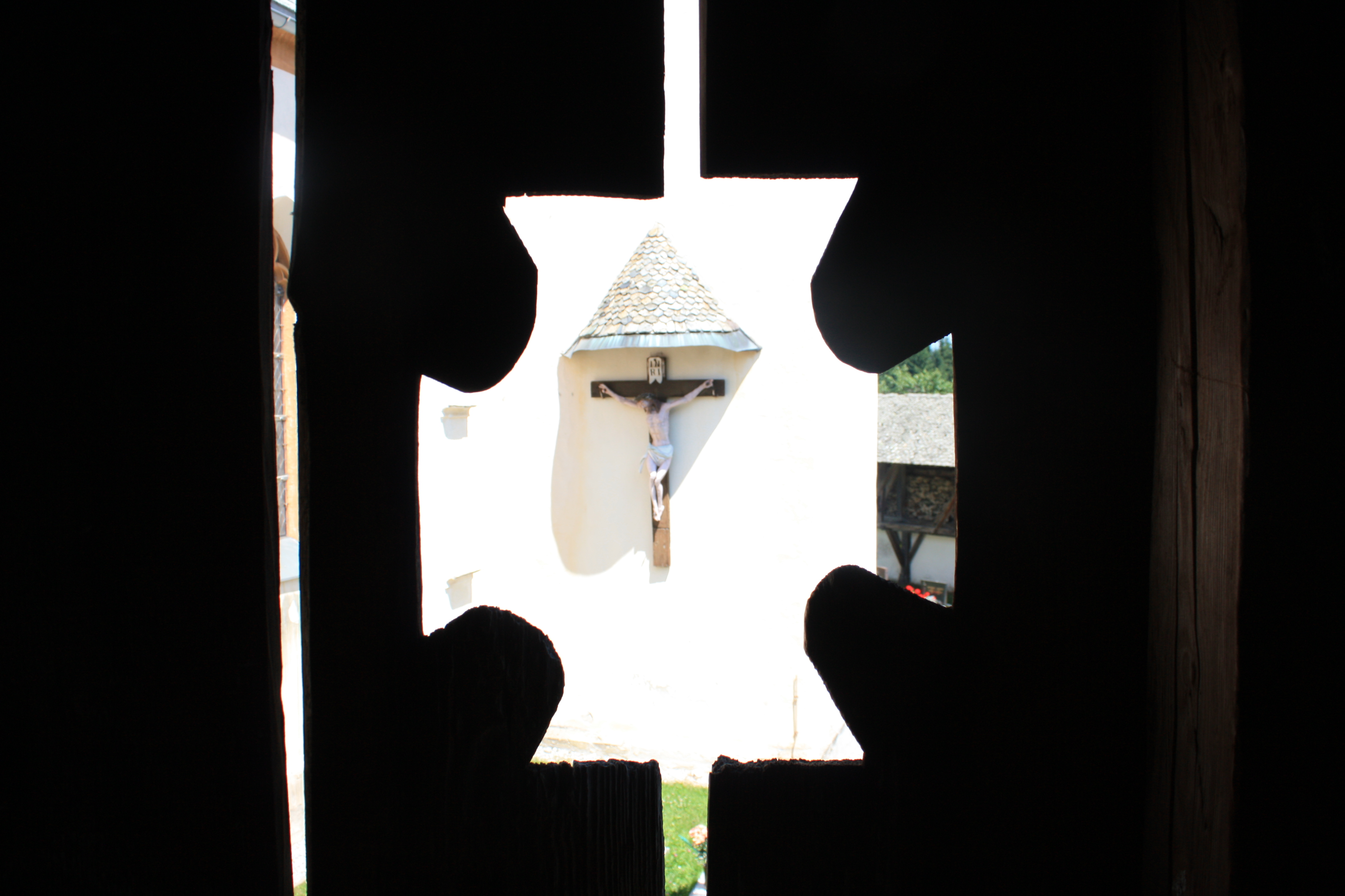 Detail of the Parish church "Maria Magdalena" in Grafenbach in the community of Diex